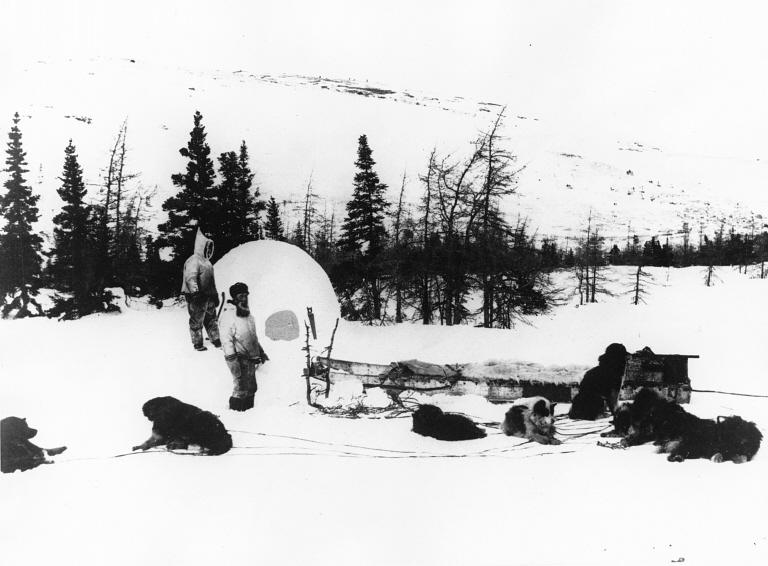 Photograph Snow hut at Nain, Labrador Coast, NF, about 1885, Anonymous, Silver salts on paper mounted on card - Albumen process - 16 x 12 cm